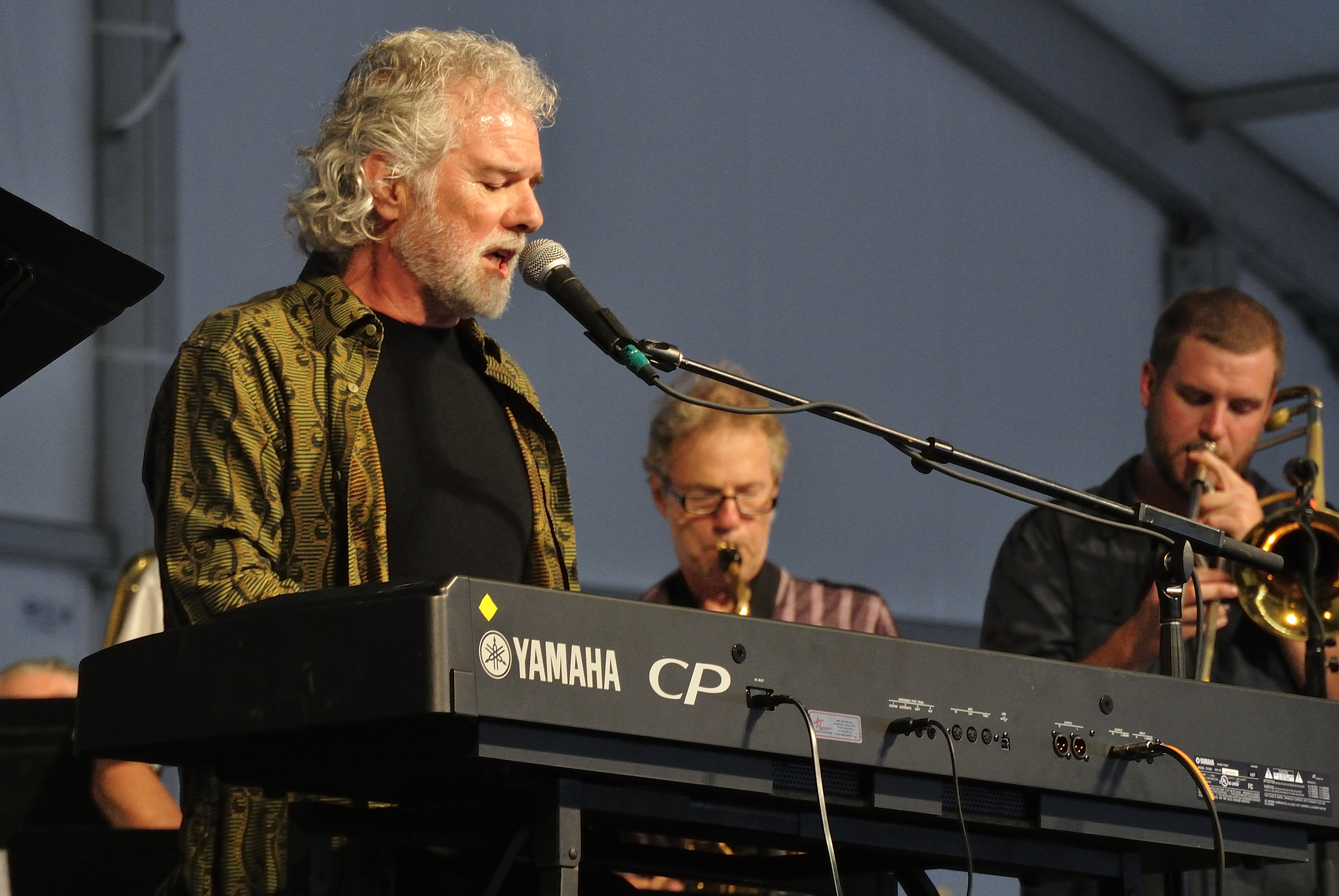 Chuck Leavell & Friends With Special Guests Bonnie Bramlett & Danny Barnes - New Orleans Jazz & Heritage Festival 2012